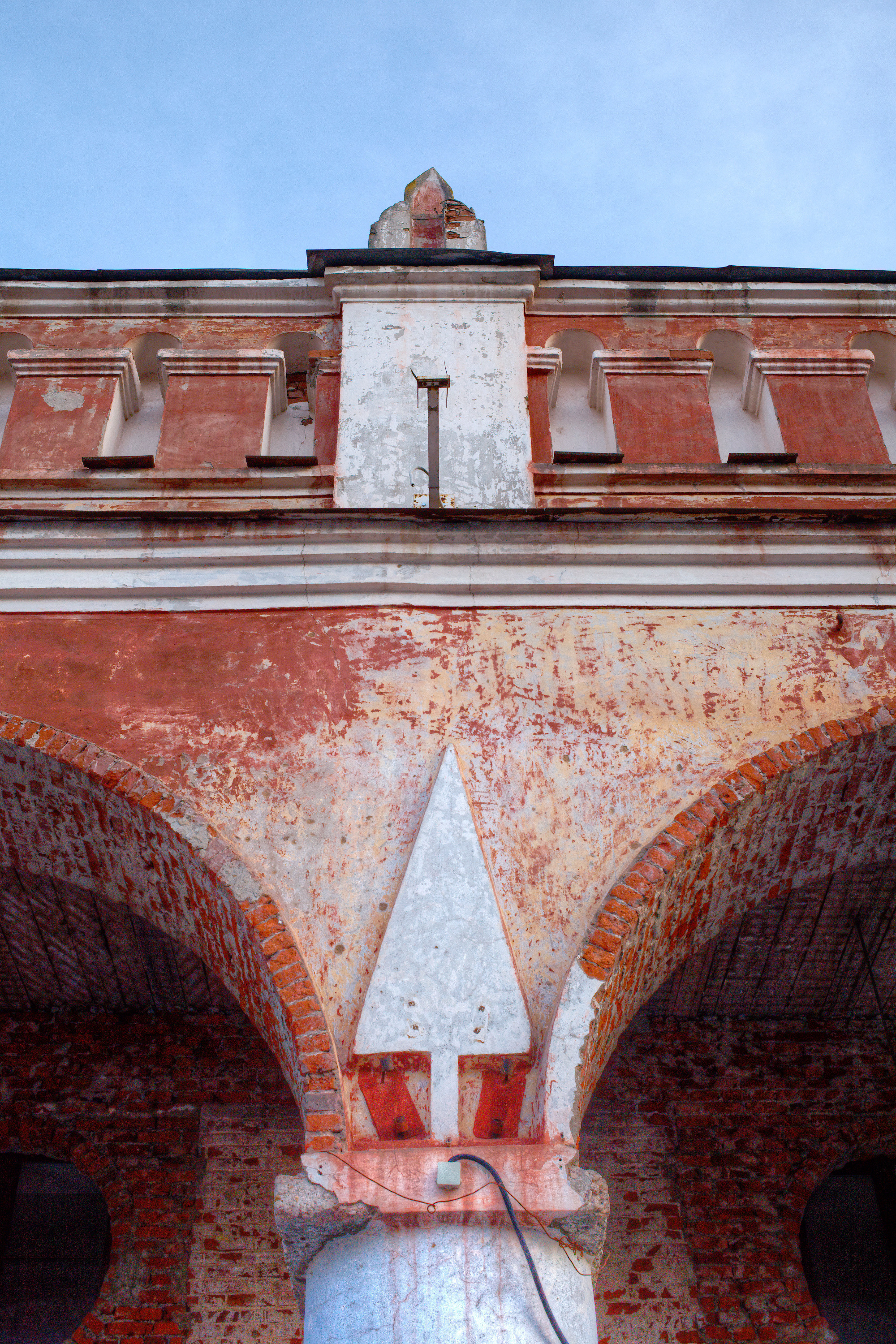 Detail of Kaluga Trade Rows (west side)